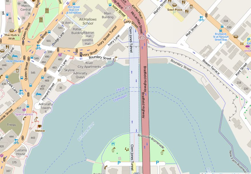 Open Street Map - Petrie Bight, 2015